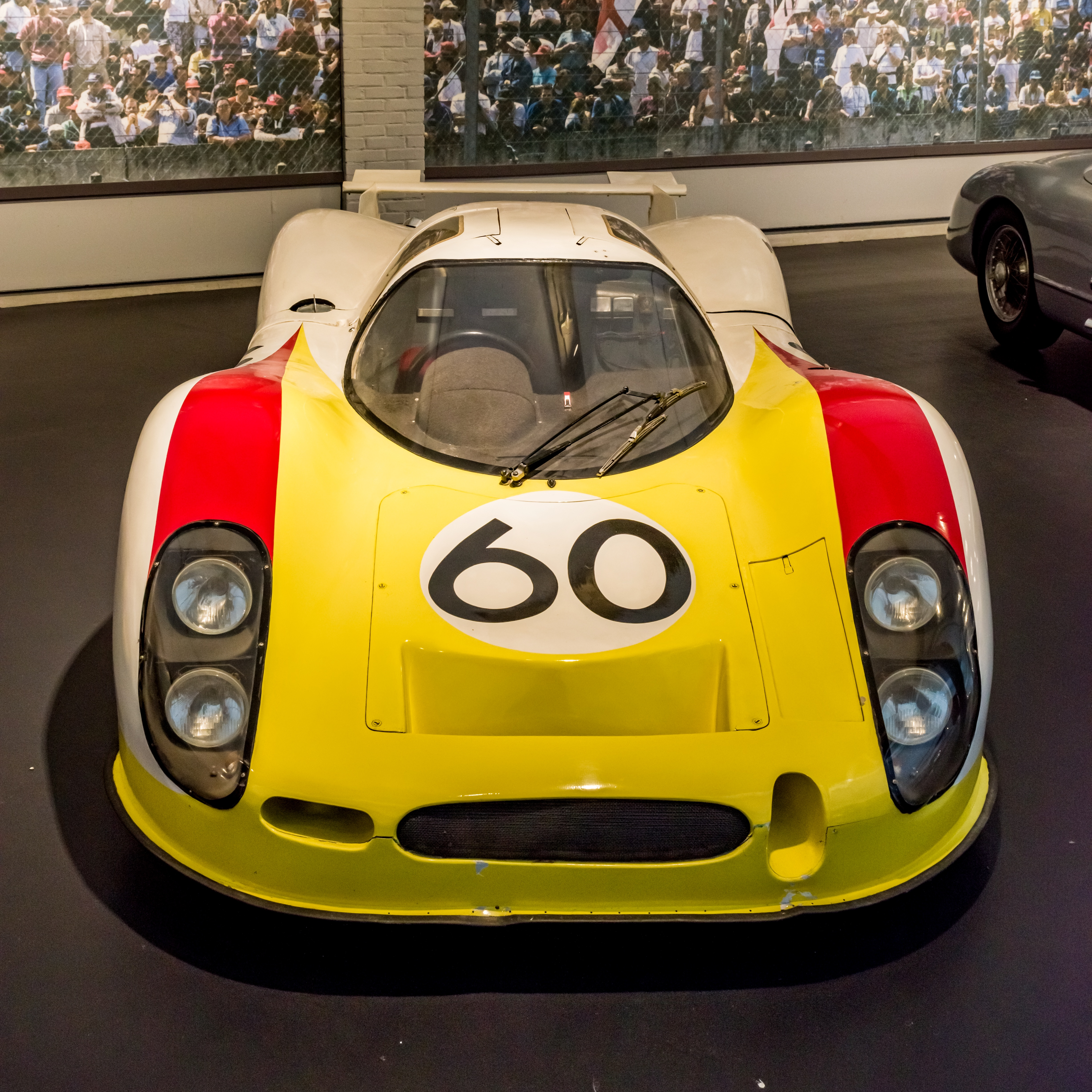 pictures from the Cité de l’Automobile – Musée National – Collection Schlump in Mulhouse, France ptictures from the 10. may 2018